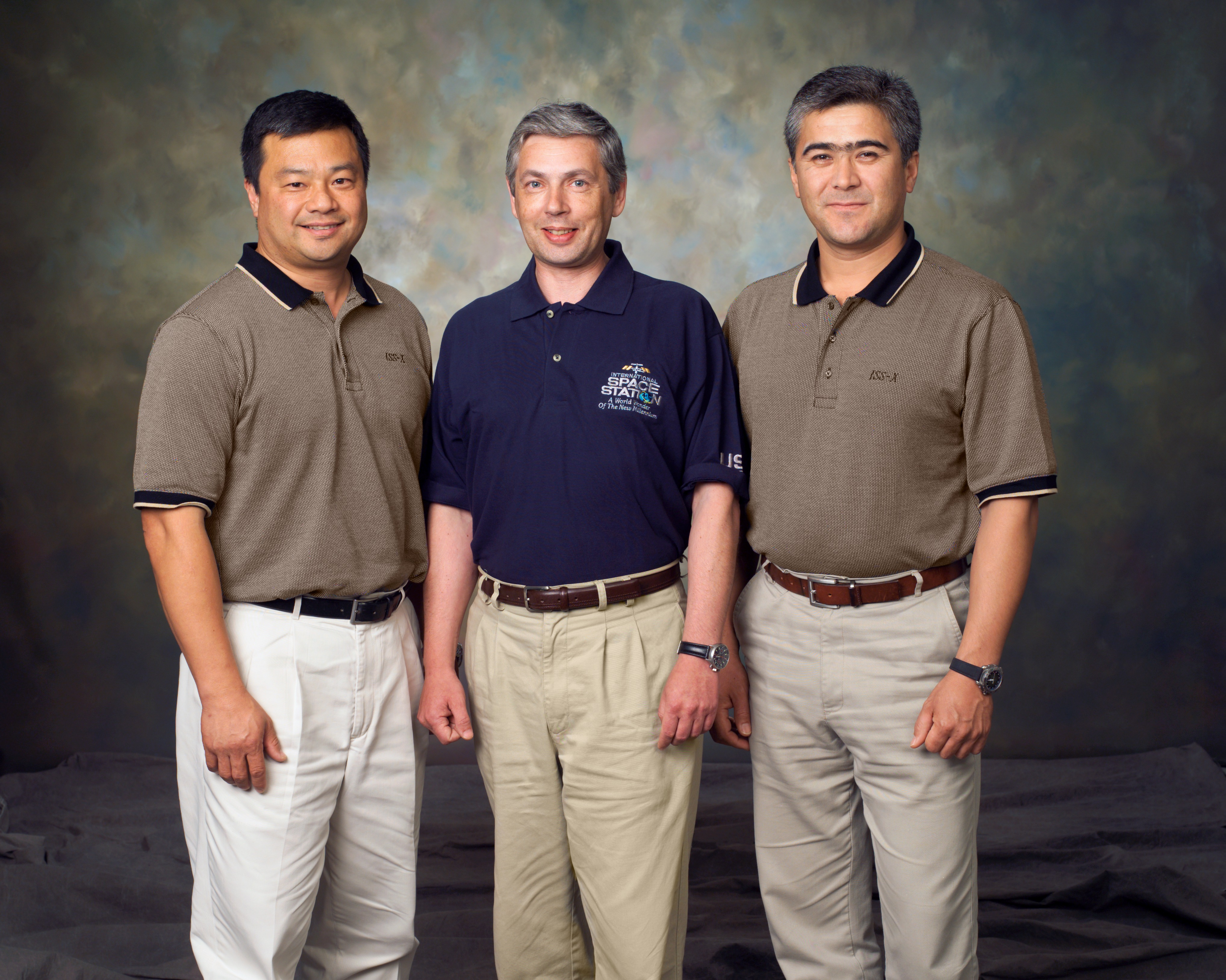 Soyuz TMA-5 crew. Chiao and Sharipov will launch with Shargin for a six-month mission on the International Space Station, while Shargin will spend eight days on the Station, returning with the Expedition 9 crew.